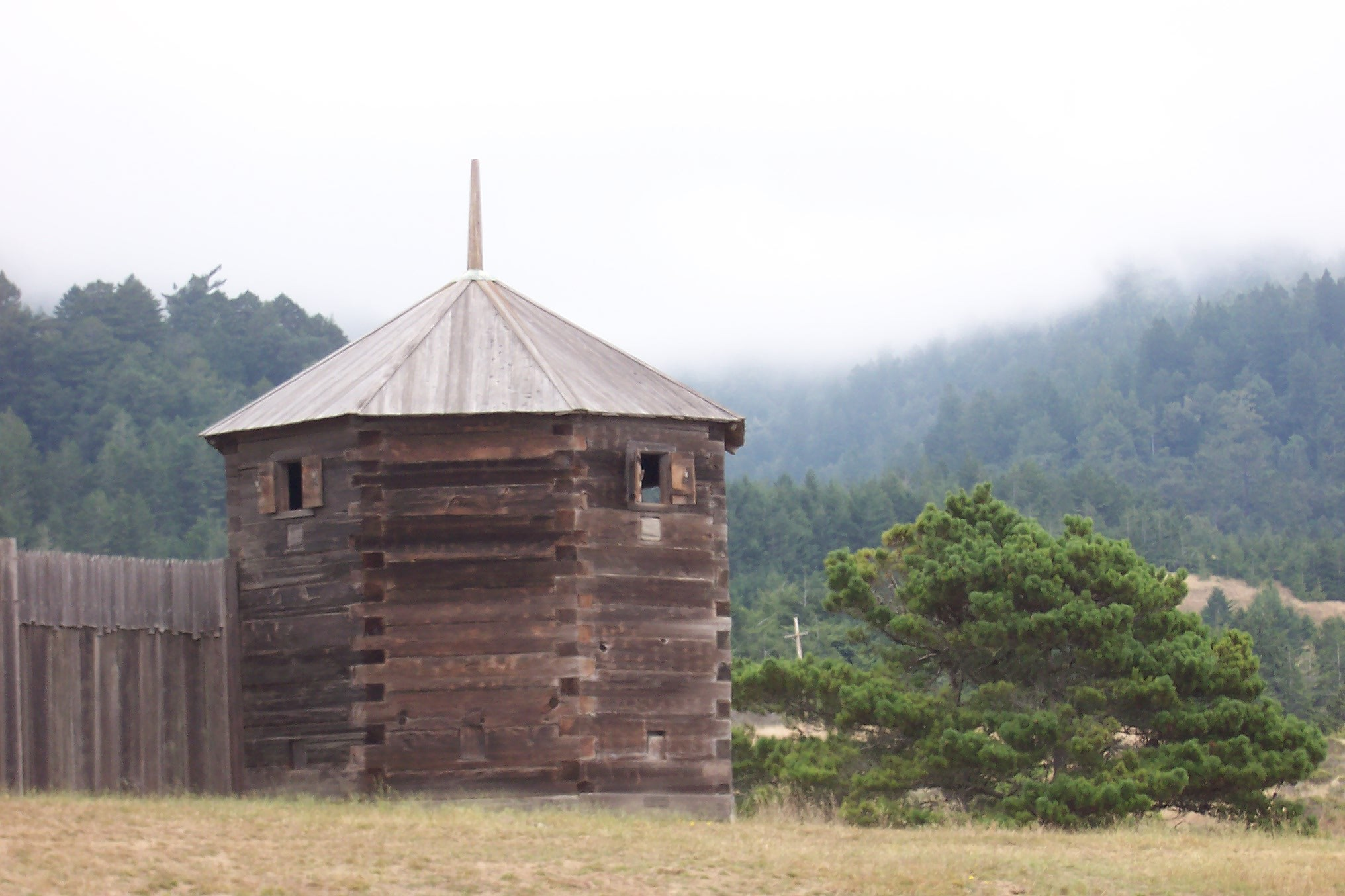 A blockhouse in Fort Ross. California, USA. Fort Ross is the US National Historic Landmark of history of Russian colonization of America.